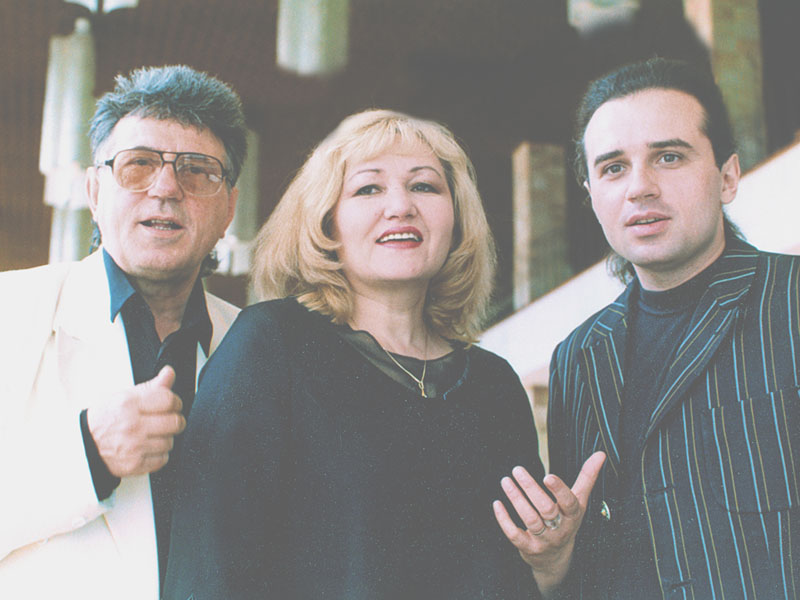 Family of musicians of Dolgan.